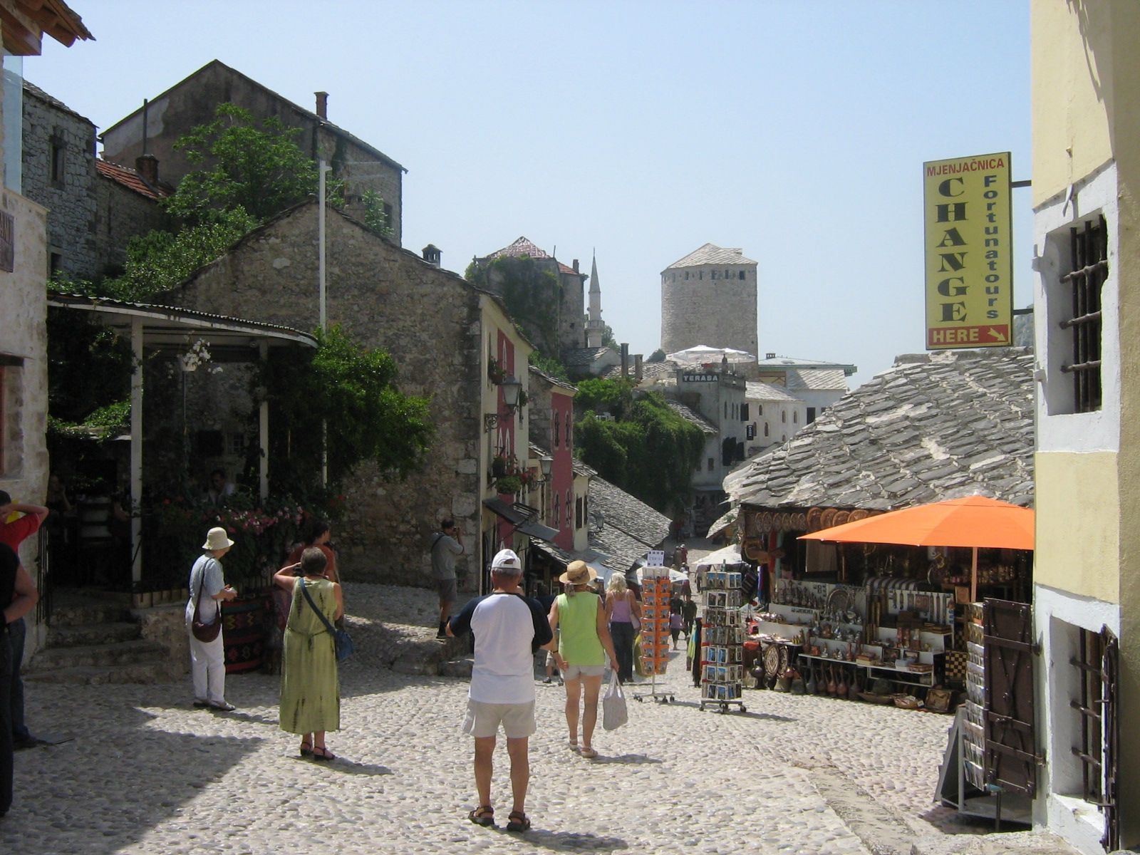 Mostar. Old part of town.